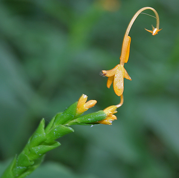 Dancing Girl Ginger Globba marantina at Talakona forest, in Chittoor District of Andhra Pradesh, India.